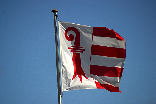 Flag of Jura canton flying in the wind.